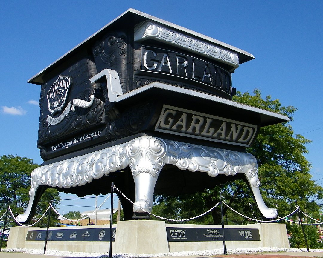 Large replica of Michigan Stove Company's Garland model, originally built for the 1893 Columbia Exhibition in Chicago